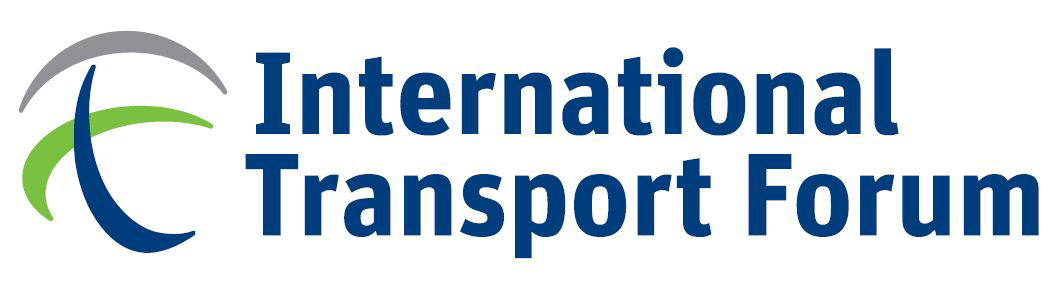 International Transport Forum logo